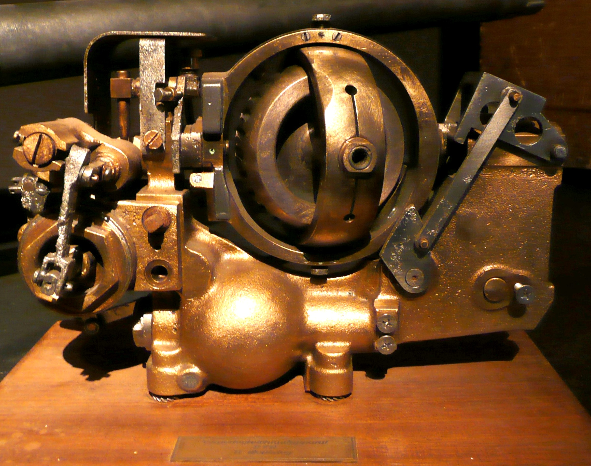 Gyroskope of a german G7a torpedo. Exposed in International Maritime Museum Hamburg.